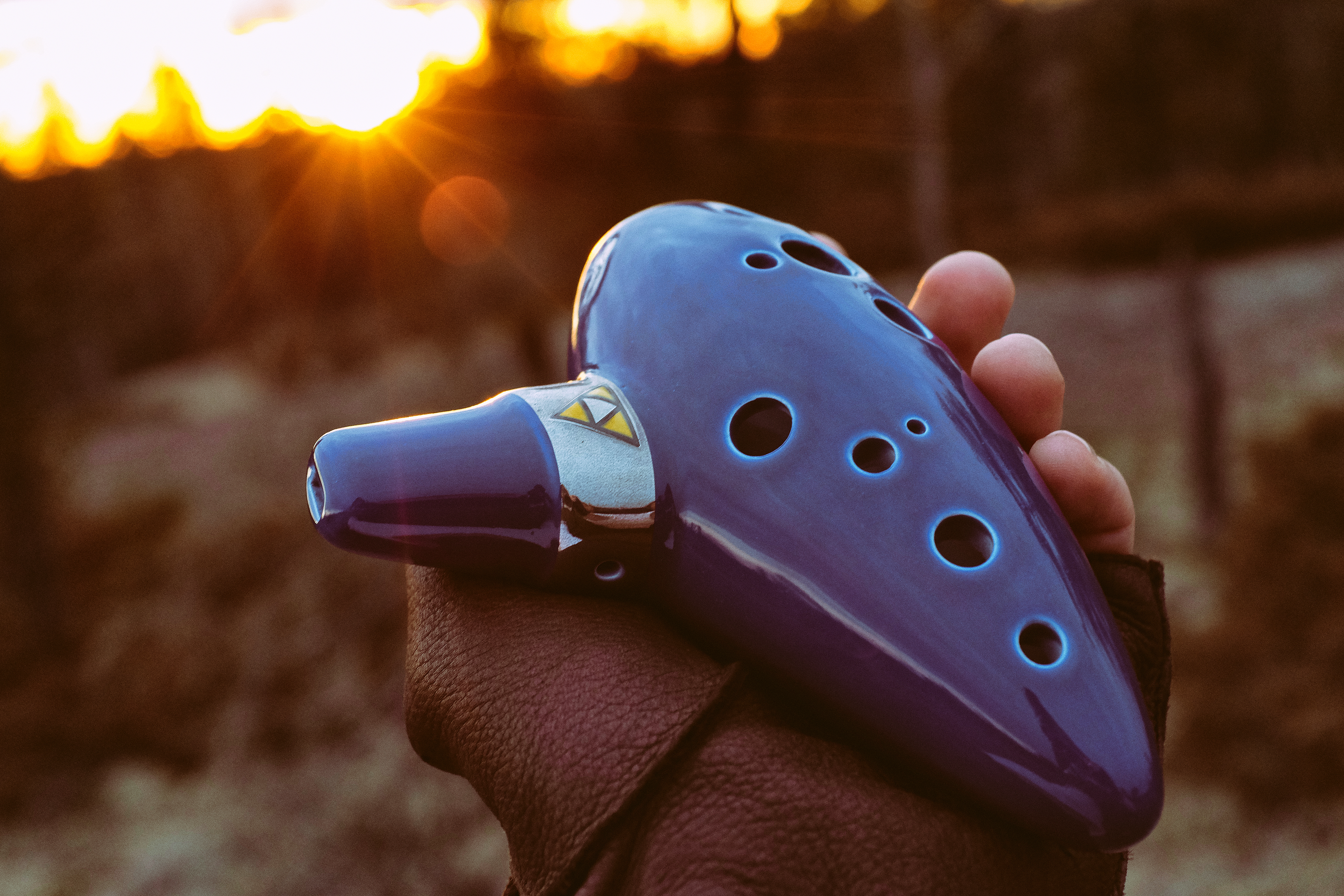 Link Cosplay pt. 6